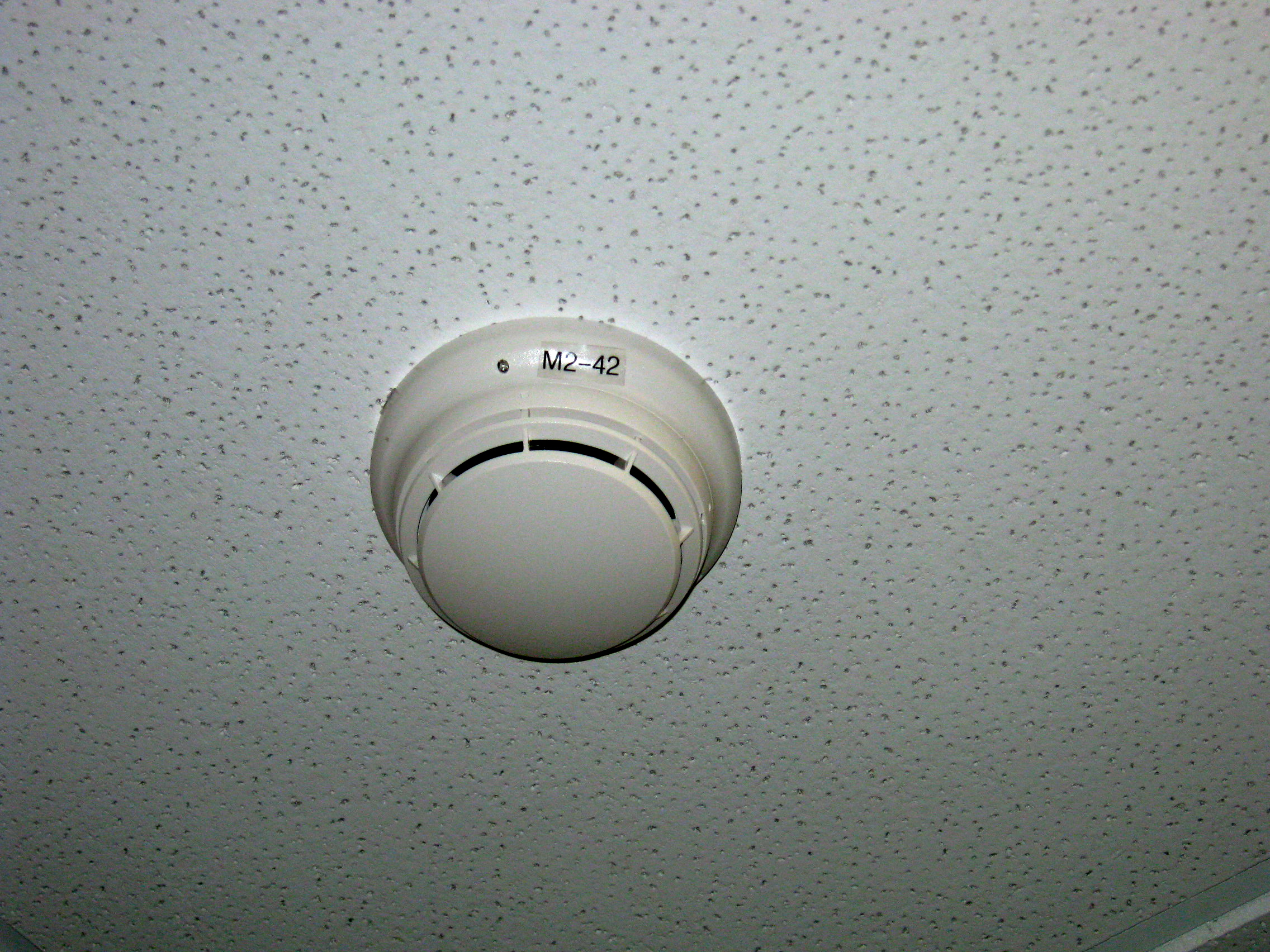 Simplex TrueAlarm addressable smoke detector, located in Hart/Burnell Hall at Bridgewater State University